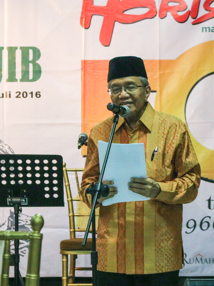 Taufiq Ismail giving welcoming speech in the 50 Years of Horison Magazine event at Taman Ismail Marzuki on July 26, 2016.